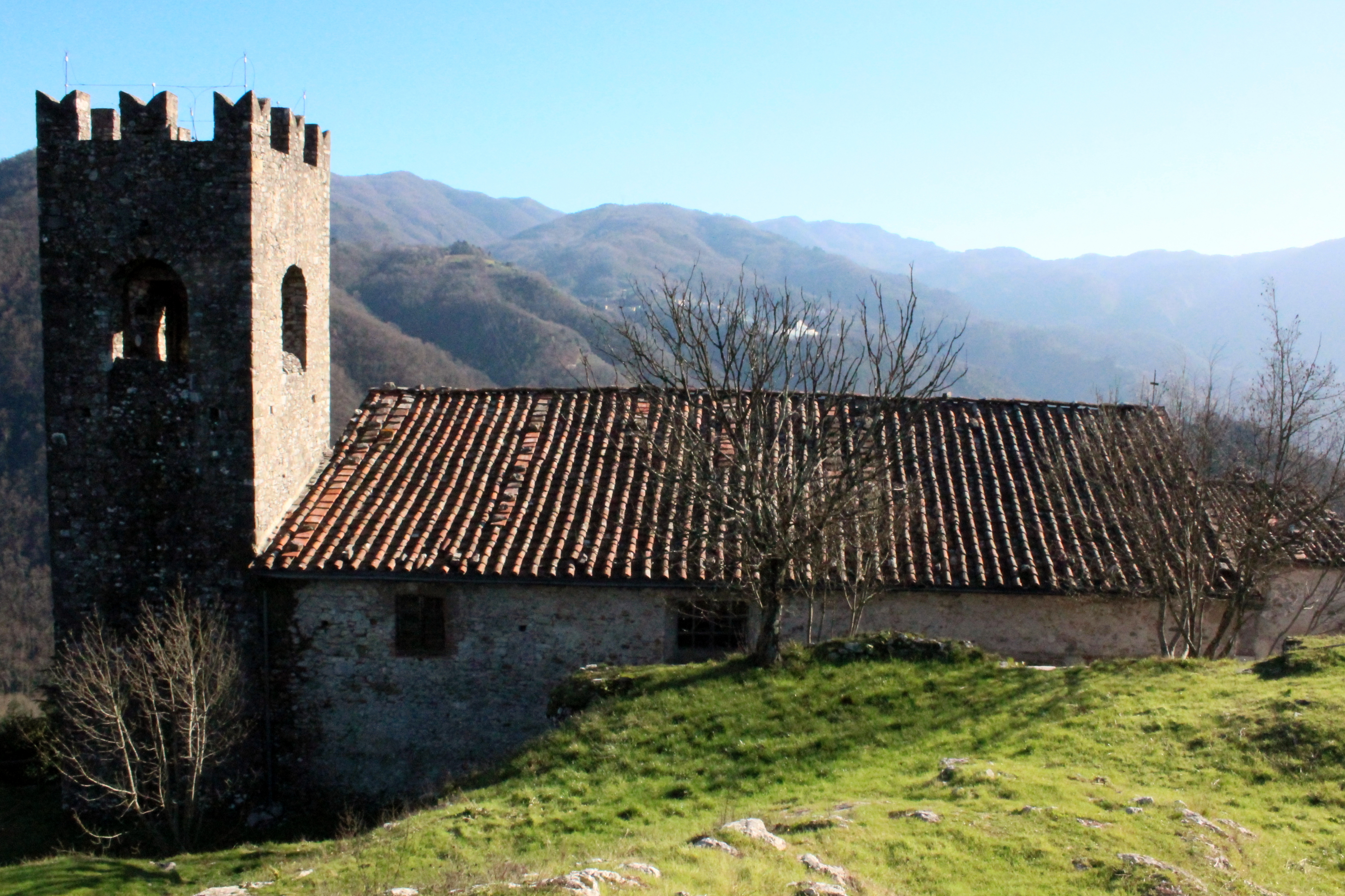 Church Santa Maria Assunta in Rocca, hamlet of Borgo a Mozzano, Province of Lucca, Tuscany, Italy